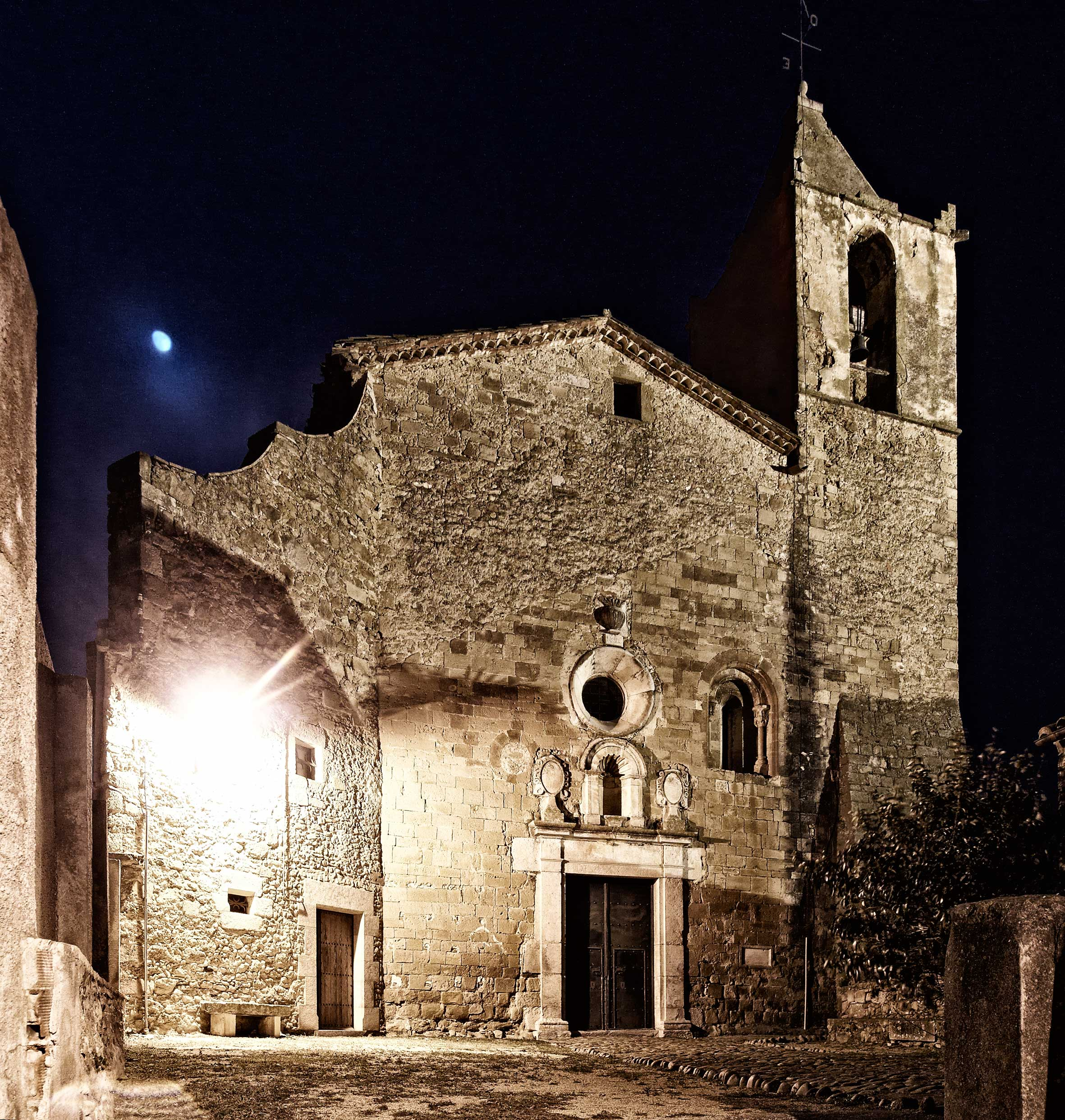 St Vicens church of Viladesens (Catalonia, Spain)